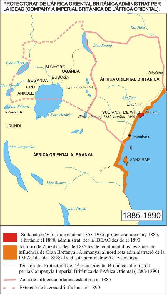 British East Africa 1885-1890